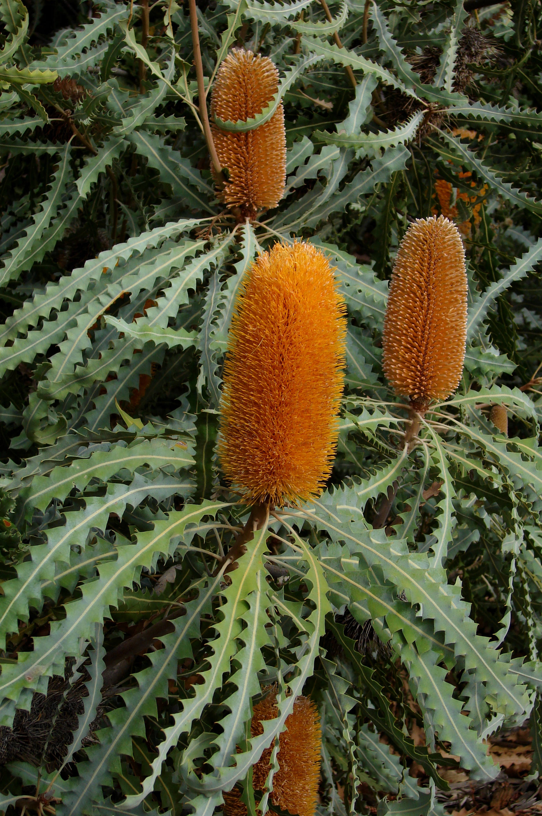 Identified as Banksia ashbyi shrub grows up to 4 m high and 2 m wide, native to Western Australia. Location: Kings Park, Perth, WA Not to be confused: - this species leaves and fully open flowers look very similar to Banksia victoriae, but B. victoriae has "woolly" flowers buds and tomentose new leaves (hairy), so commonly known as "Woolly Orange Banksia".